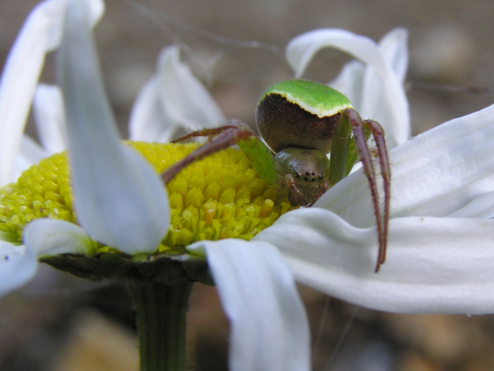 Green orb-web spider (possibly Colaranea viriditas), Wellington, New Zealand